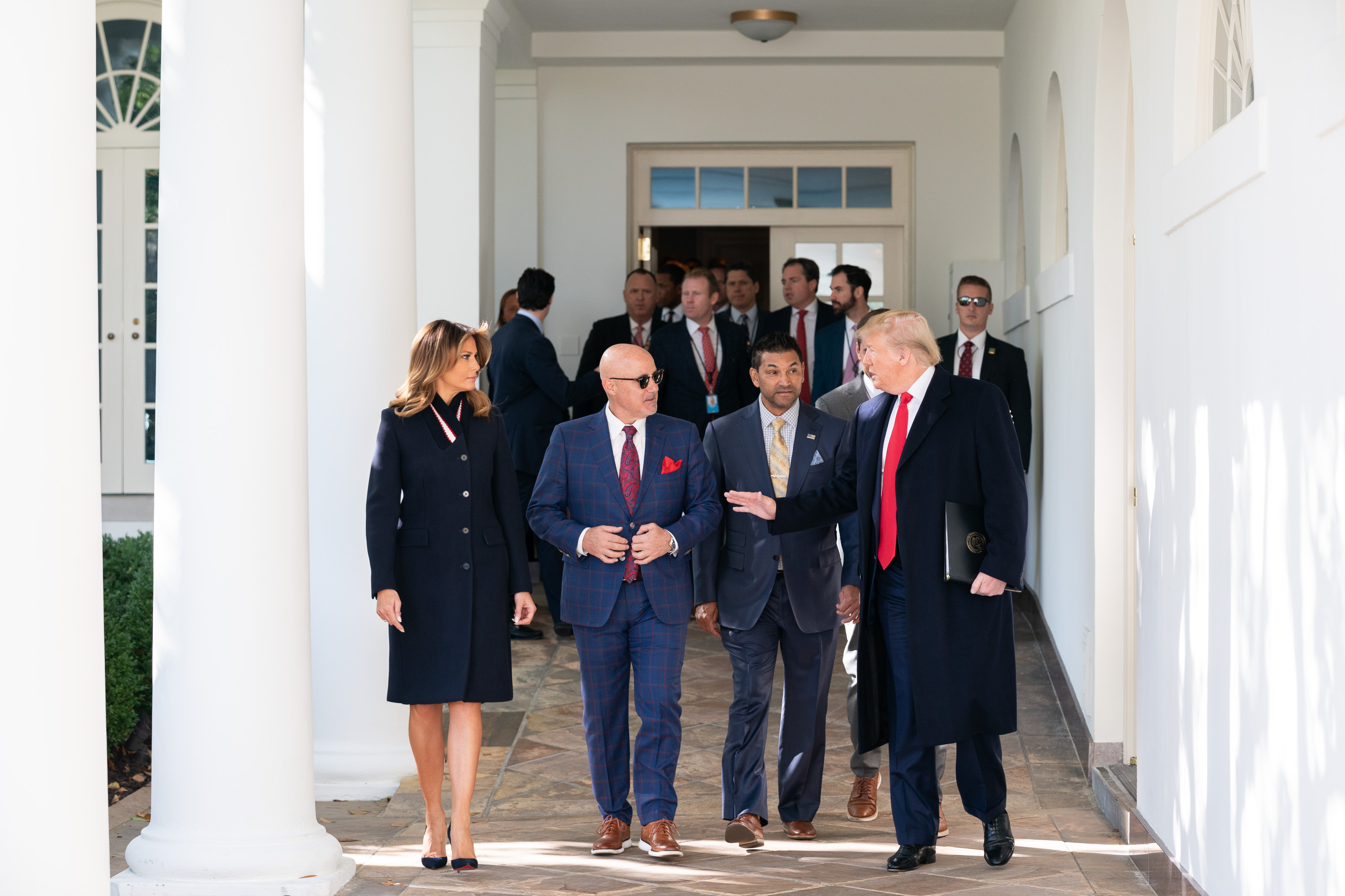 President Donald J. Trump and First Lady Melania Trump walk with Nationals General Manager Mike Rizzo and Manager Dave Martinez along the Colonnade of the White House Monday, Nov. 4, 2019, before attending the celebration of the 2019 World Series Champions, the Washington Nationals on the South Lawn. (Official White House Photo by Shealah Craighead)